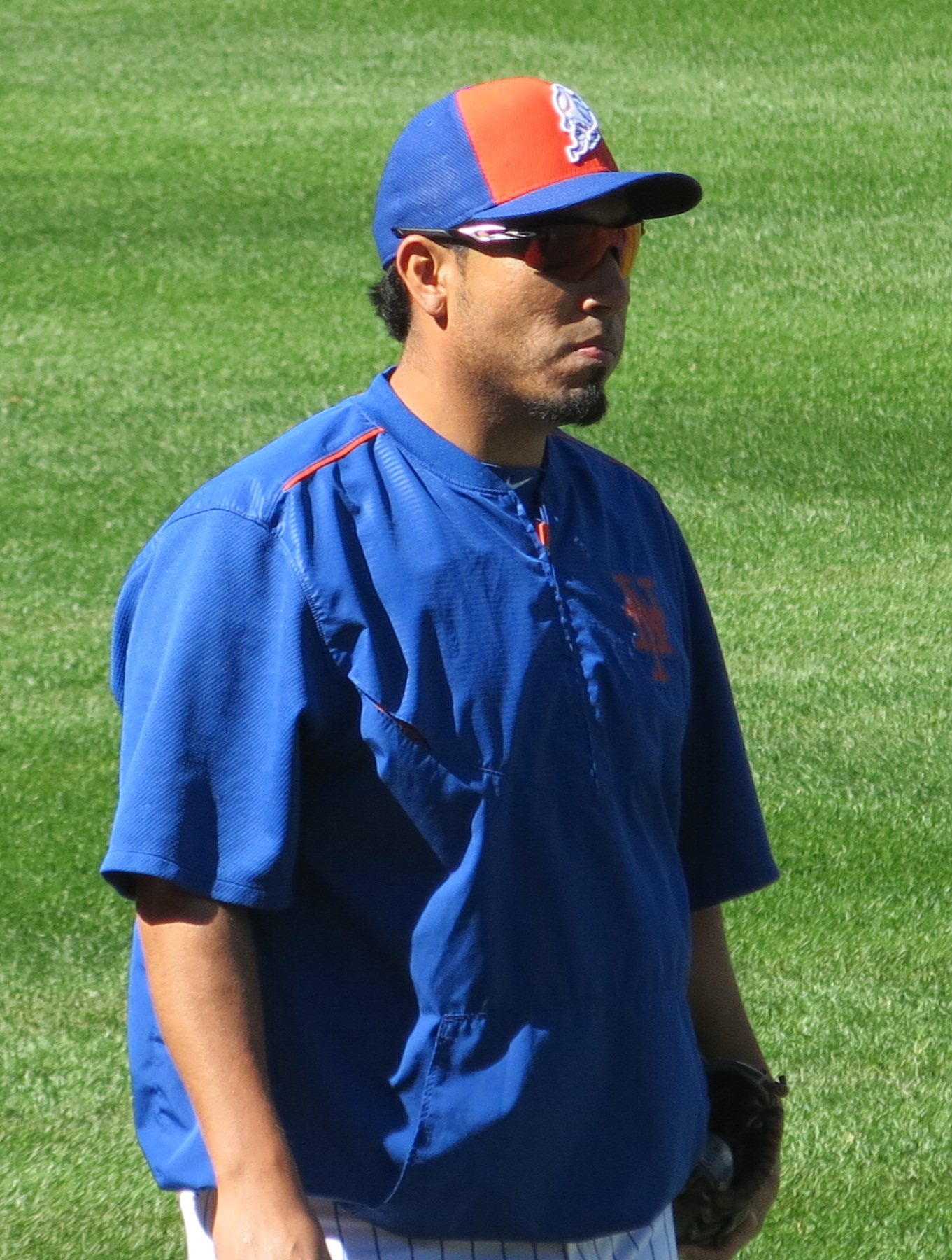 Fernando Salas of the New York Mets, September 25, 2016.